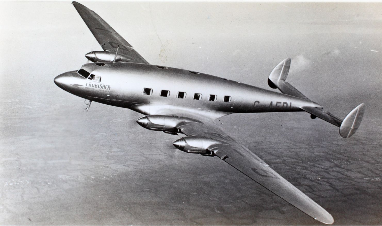 Image from the Charles Daniels Photo Collection album "British Aircraft." SOURCE INSTITUTION: San Diego Air and Space Museum Archive